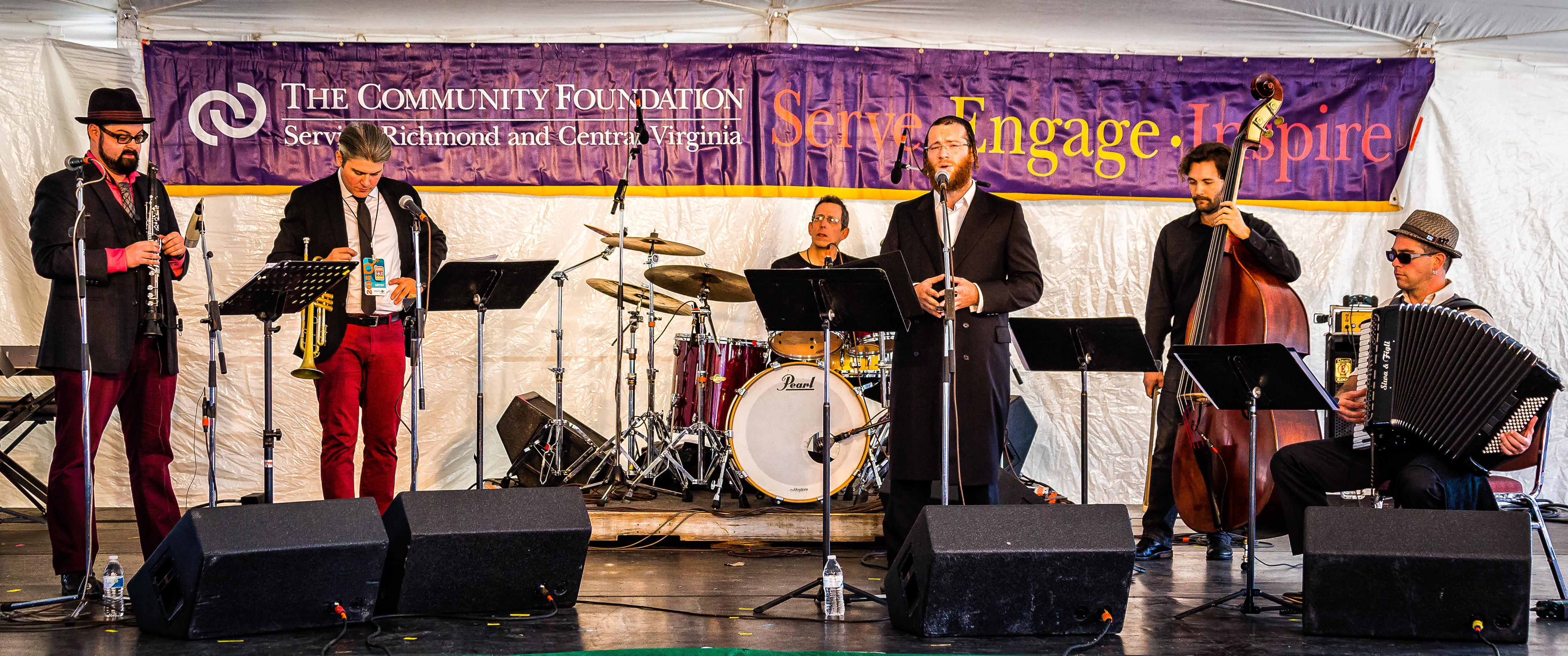 Richmond Folk Festival 2015 This super group is another example of the diversity and artistry attending the RFF. Sunday's performance featured the tremendous talent of Cantor Yaakov “Yanky” Lemmer, whose voice blended with this wonderful group to provide a unique example of Jewish traditional music.